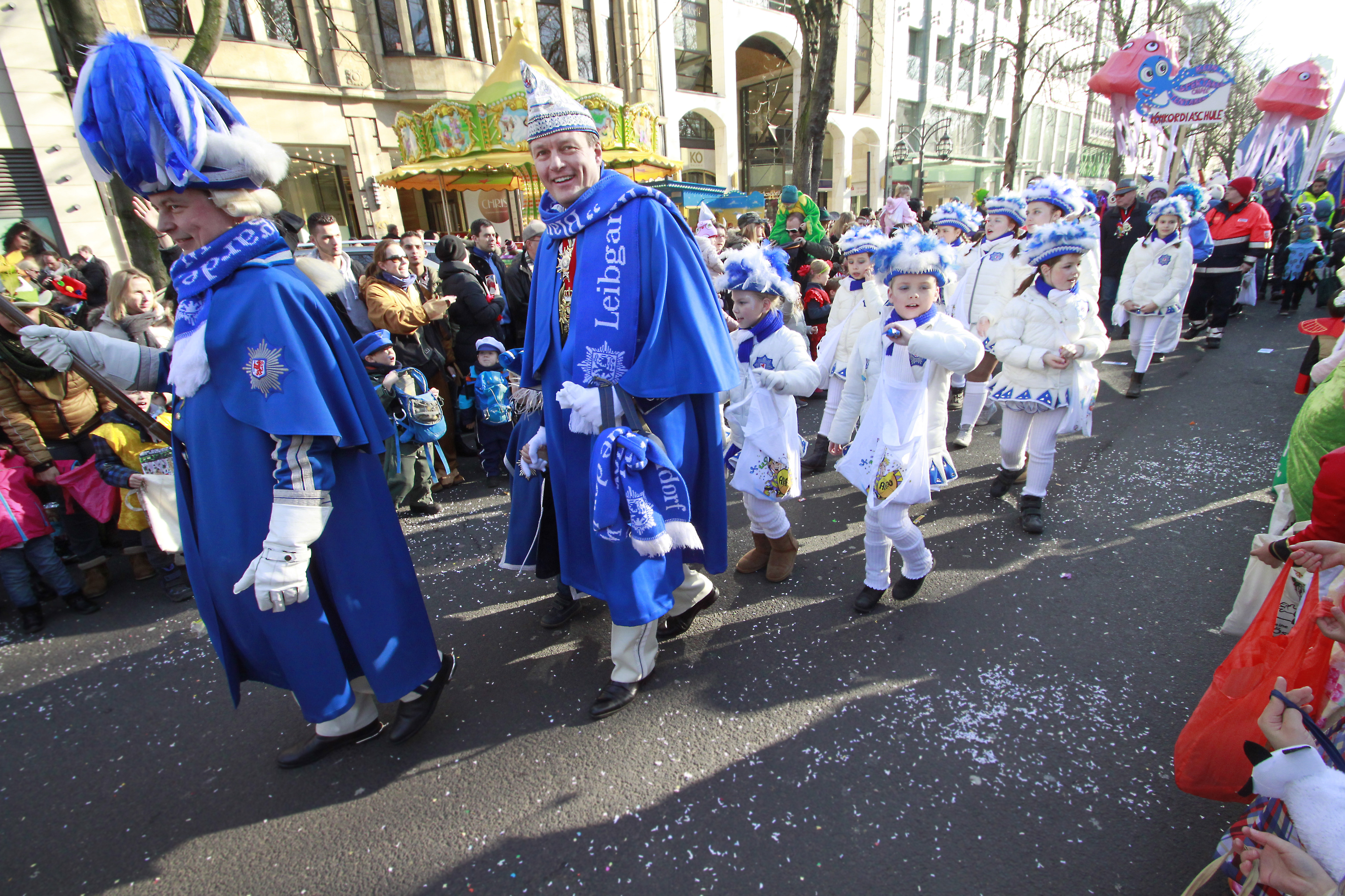 Carnival of children in Düsseldorf, Germany. Königsallee. Prinzengarde Blau-Weiss (garde of the carnival princess).